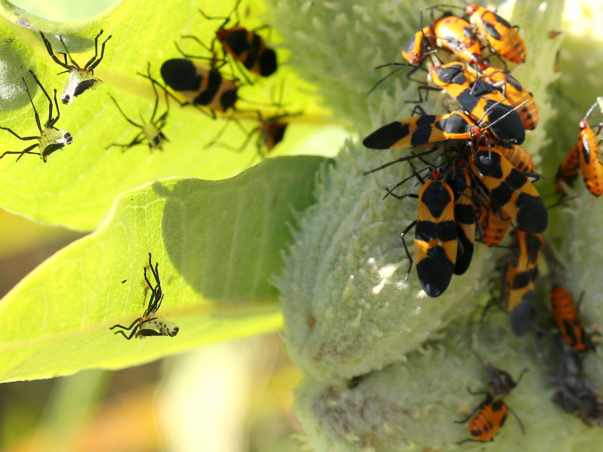 Large milkweed bugs and exuviae, Russell R. Kirt Prairie, Illinois